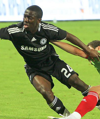 Shaun Wright-Phillips